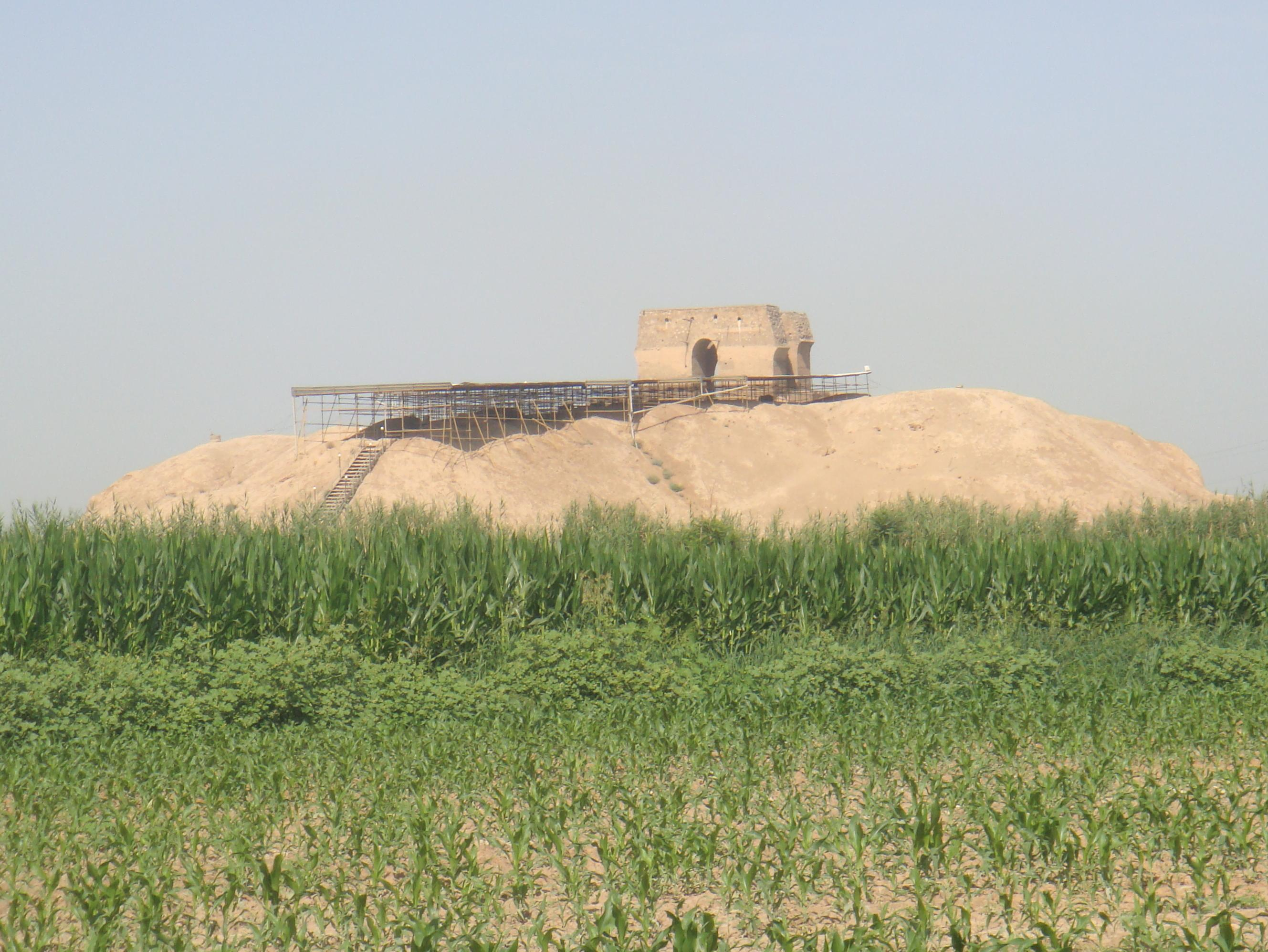 Tappeh Mill or Bahram Fire Temple in Ray near Tehran, Iran